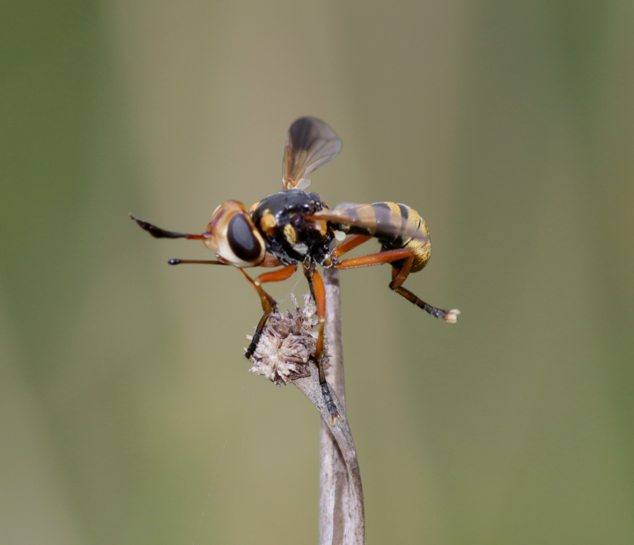 La Franqueta, Parc Natural Els Ports, Catalunya